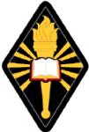 Shoulder sleeve insignia (patch) worn by Army military personnel attached to the US Army Chaplain Center and School, located on the campus of the Armed Forces Chaplaincy Center, Ft Jackson, Columbia, South Carolina.